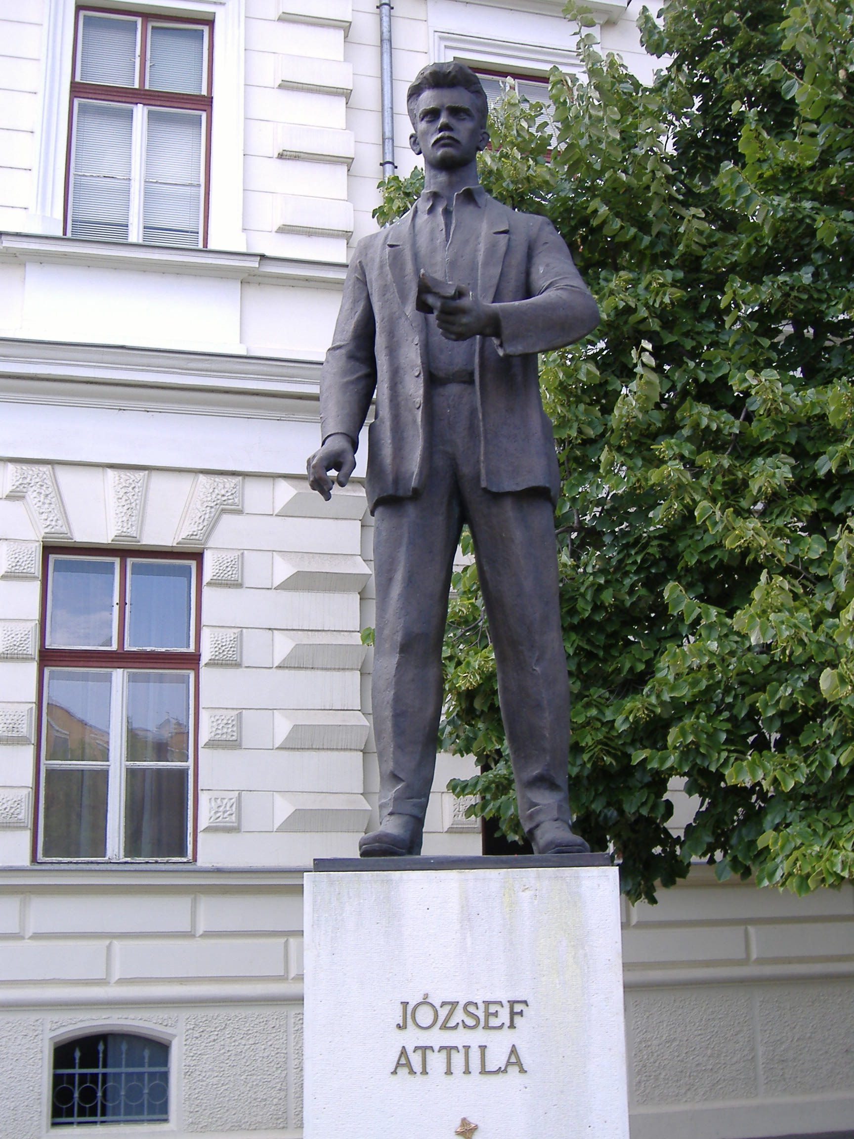 Statue of Attila József, Hungarian poet in Makó, Hungary.